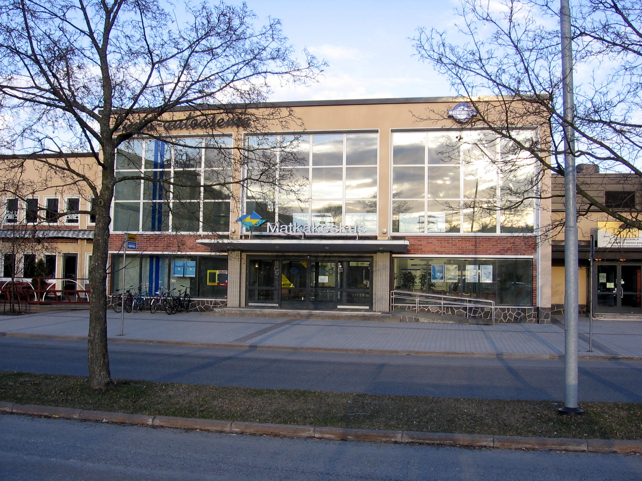 Pori bus station